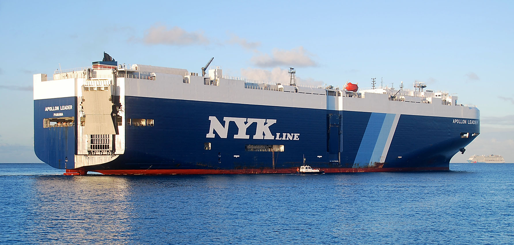 Photo of vehicles carrier Apollon Leader as she departs Bridgetown, Barbados.